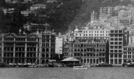 Hong Kong from the harbour. Correspondence dated 1928. Detail of Postcard; no publisher named From left to right: King's Building Union Building end of Pedder Street Blake Pier General Post Office, Hong Kong (1911 building)